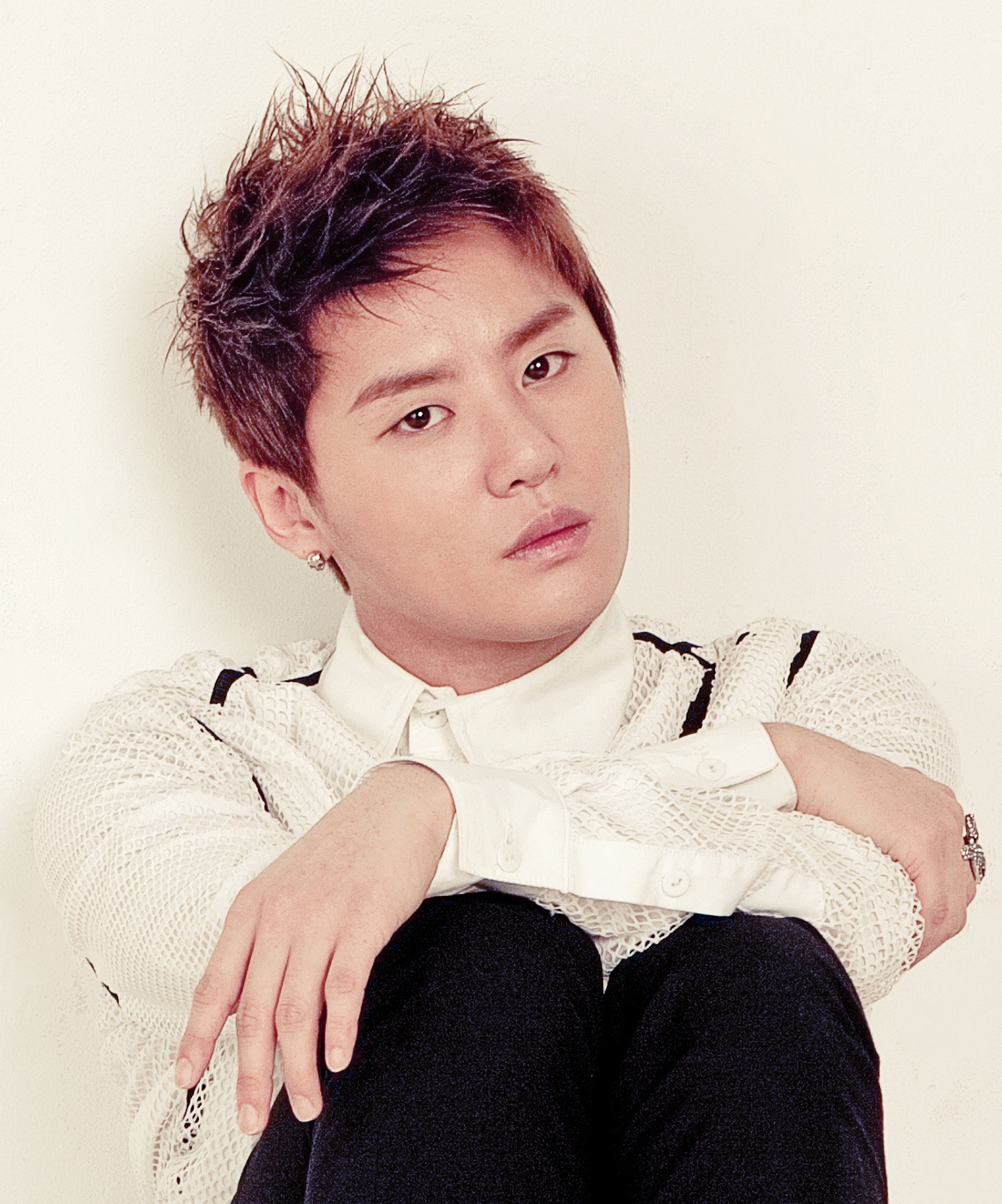 LG 옵티머스 Q2 광고 사진 - Junsu(2)